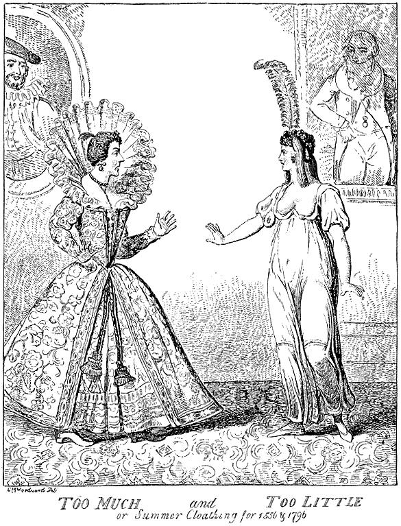 A satirical 1796 contrast between old Elizabethan and cutting-edge Directoire clothing styles: "TOO MUCH and TOO LITTLE, or Summer Cloathing of 1556 & 1796", a caricature engraved by Isaac Cruikshank after a drawing by George M. Woodward, published February 8th 1796. For a larger scan of a tinted version of this same print, see Image:Toomuch-1556 Toolittle-1796 caricature.jpg. In 1796, the strongly neoclassically-influenced styles satirized on the right were still very new in England. Notice the single vertical feather springing from the hair of the 1796 woman. Scanned by H. Churchyard.